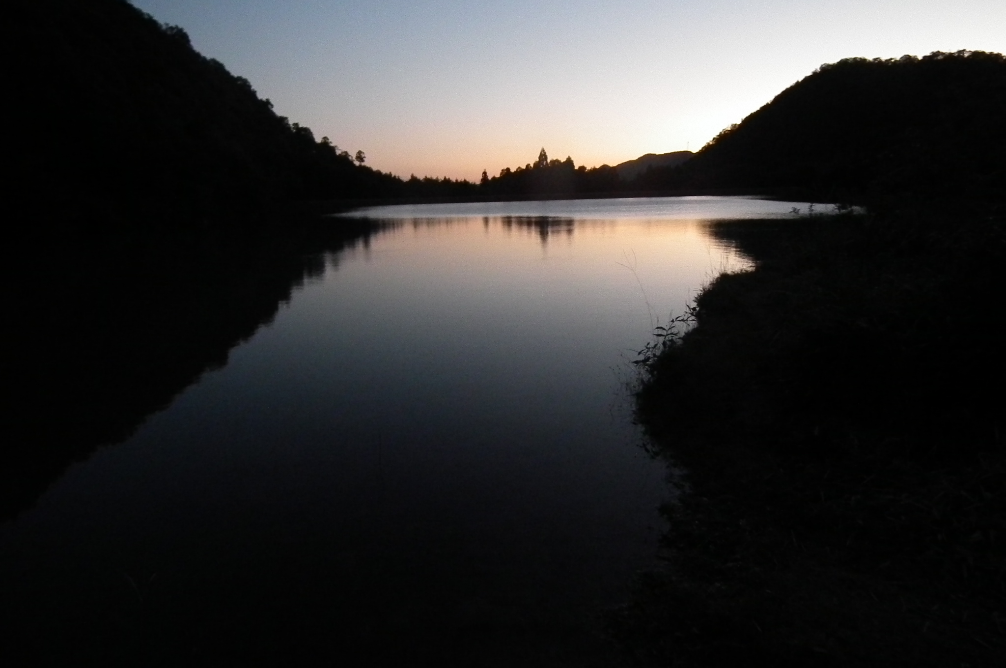 Akitani Pond Grave of the Fireflies